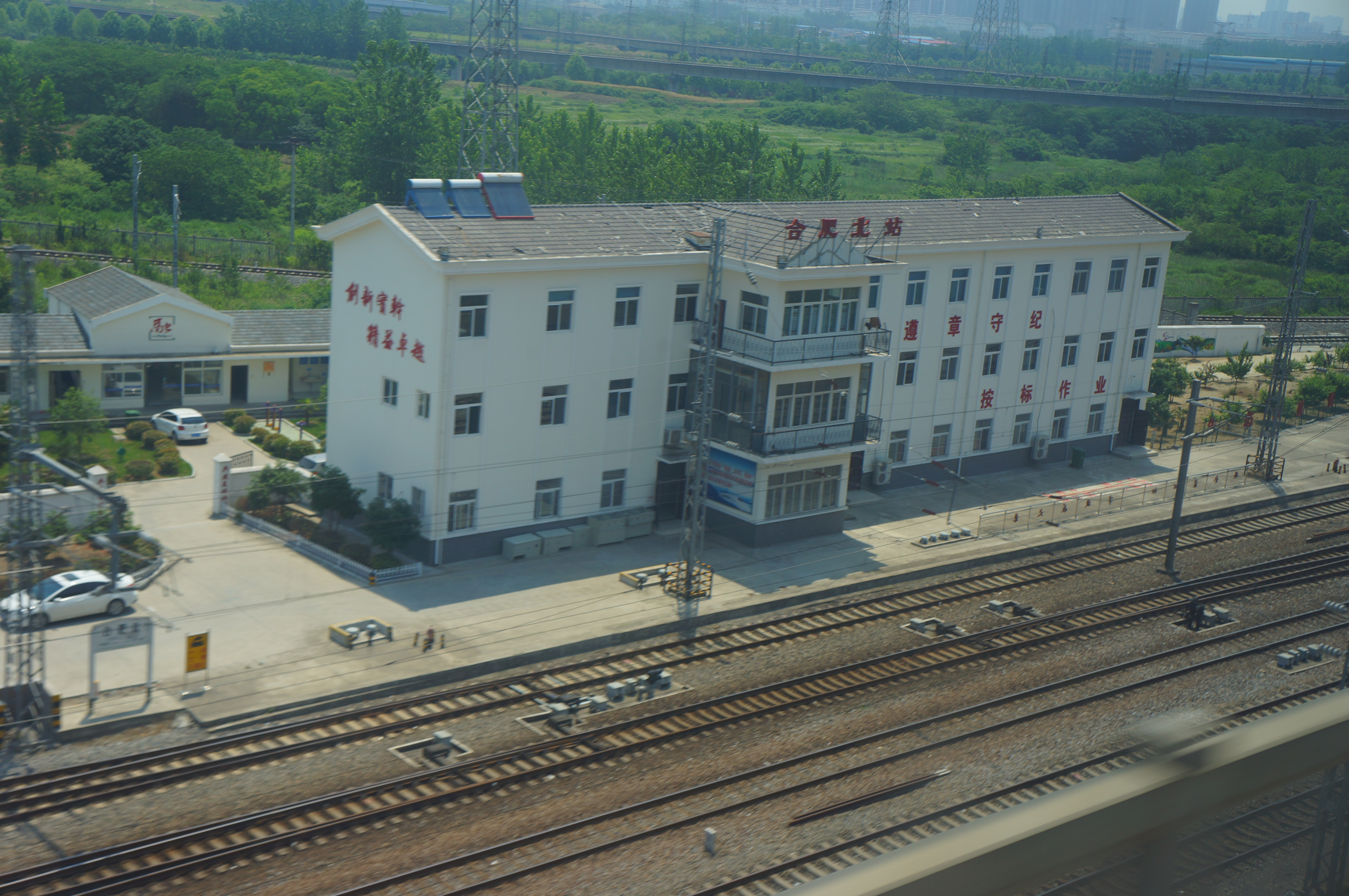 201705 Conductor of Hefeibei Station